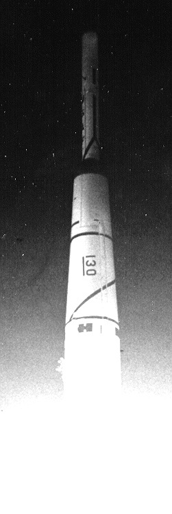 Lift-off of Thor-Able I rocket with Pioneer 1